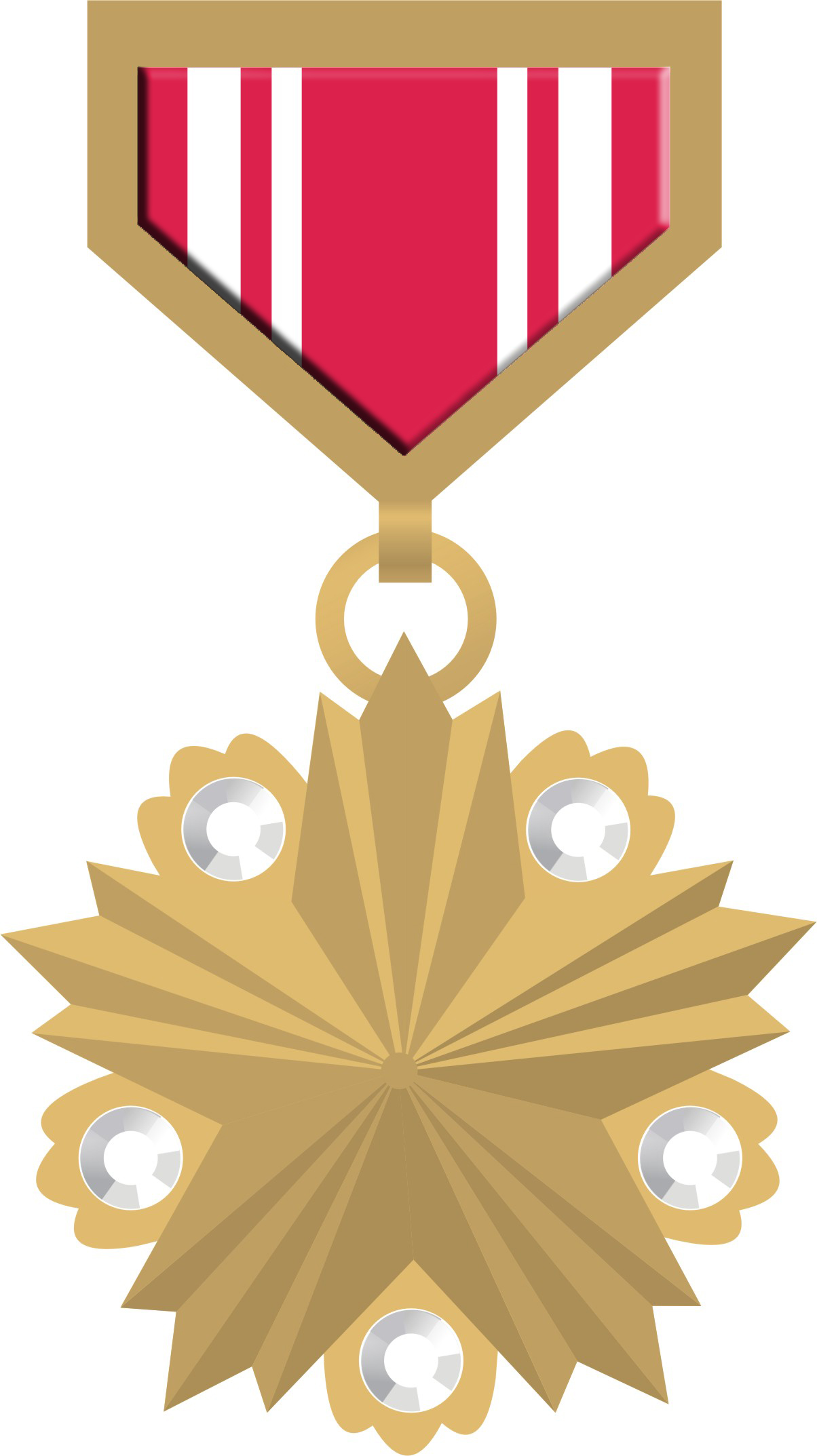 The Gold Star Medal (Hero of the Mongolian People's Republic). Монгол: БНМАУ-ын баатрын “Алтан таван хошуу” тэмдэг